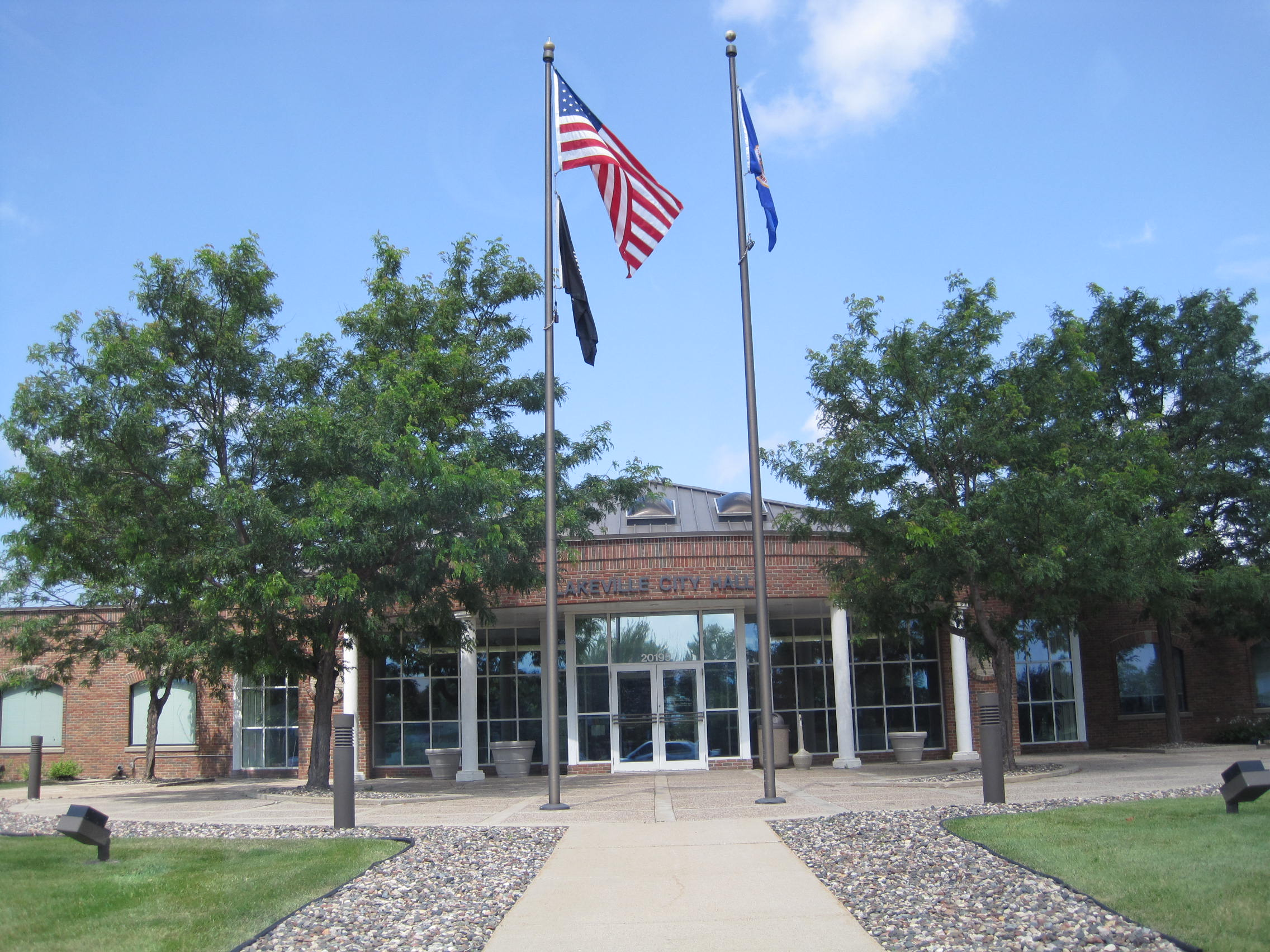 Exterior of the Lakeville, MN city hall.